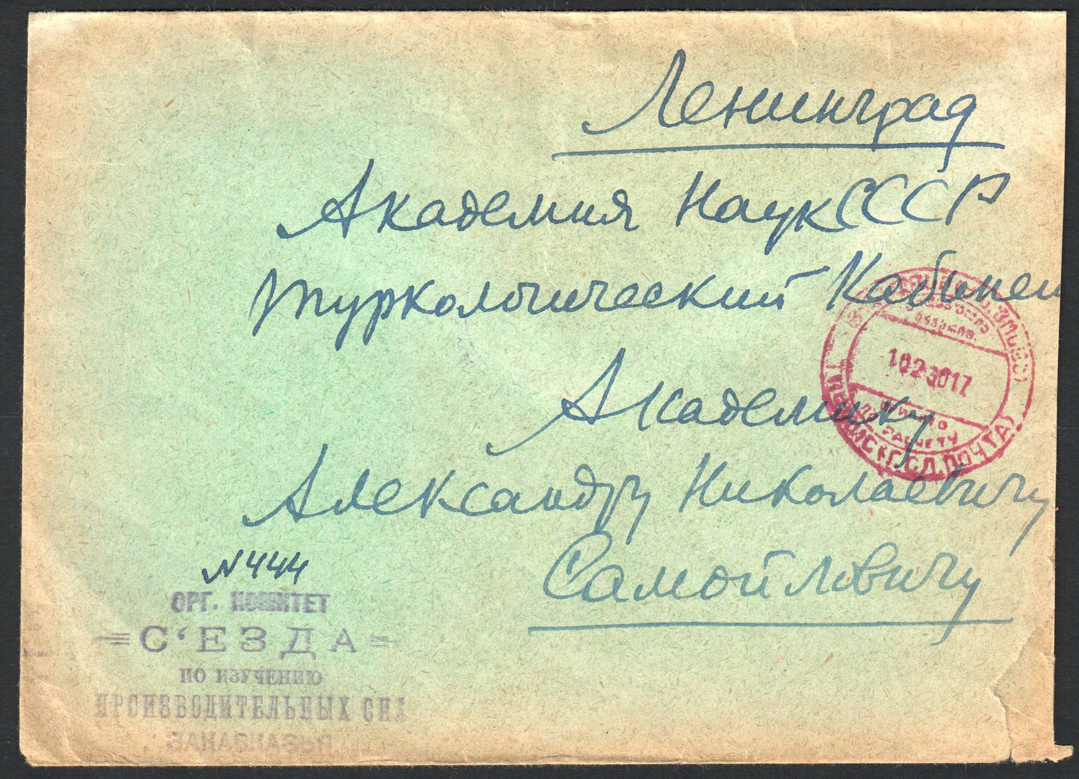 USSR 1930-02-10 cover representing an official mail letter sent from Tiflis to Alexander Nikolaevich Samoylovich (1880–1938), a Russian Orientalist-Turkologist, member of the USSR Academy of Sciences, Leningrad, backside arrival cancel. Large red circular bilingual postmark reading: ' 1023017 Принято по расчёту. Тифлис. Г. сл. почта' (городская служебная почта) translated as '10-2-1930, 17:00h, accepted for free-frank Tiflis. M. of. mail' (municipal official mail). A number of organizations in the USSR had the privilege to send their mail post-free[1]: Mail to-from Red Army personnel Soviet Academy of sciences mail Postage on account mail Official mail Cash frankings